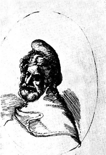 "Datua Biscaia, a Mingrelian noble, born in the mountains of the Caucasus, a man of extraordinary courage, guardian of the fortress of Gorieli; fought against the Abkhazians; was killed in one of the battles against them". After Castelli